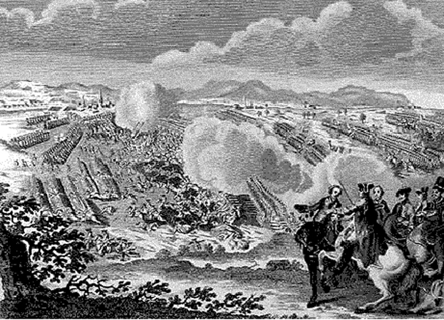 Battle of Minden near Minden, Germany: In the Battle of Minden, a Prussian-Hanoverian-British army under Prince Ferdinand defeated a French army under the Marquis de Contades on 1 August 1759 during the Seven Years' War.